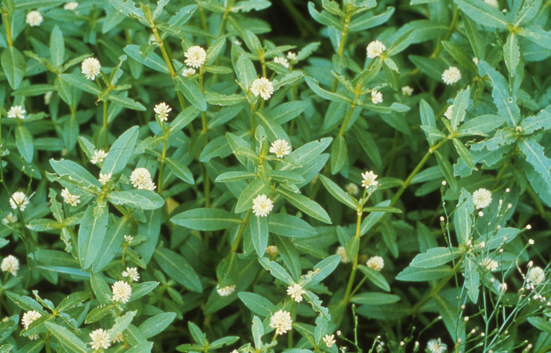 Alligator weed is a weed of mainly aqautic habitats. It is a growing problem in Australia.